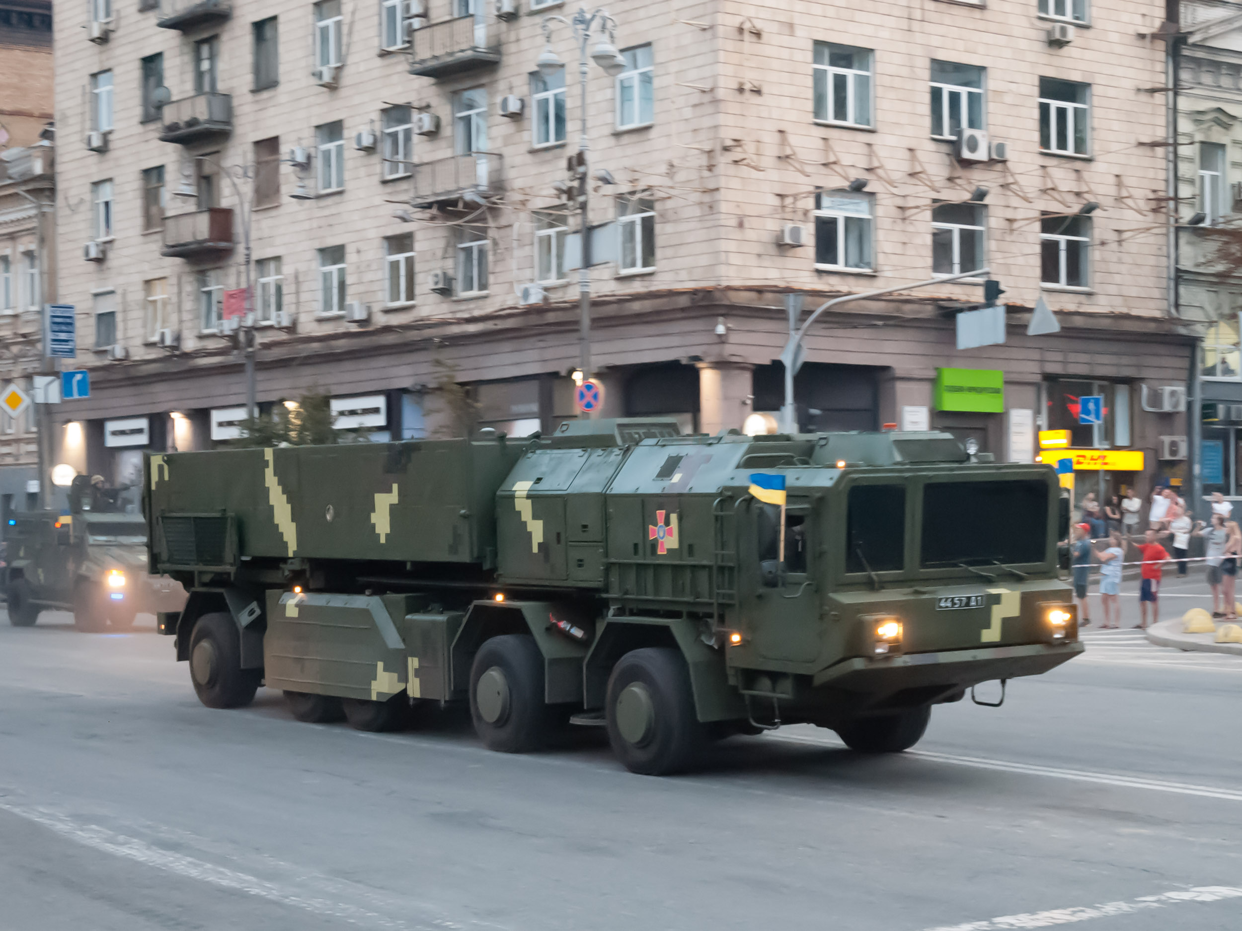 Ukrainian tactical missile system (Hrim-2 / Sapsan), rehearsal for the Independence Day military parade in Kyiv, 2018